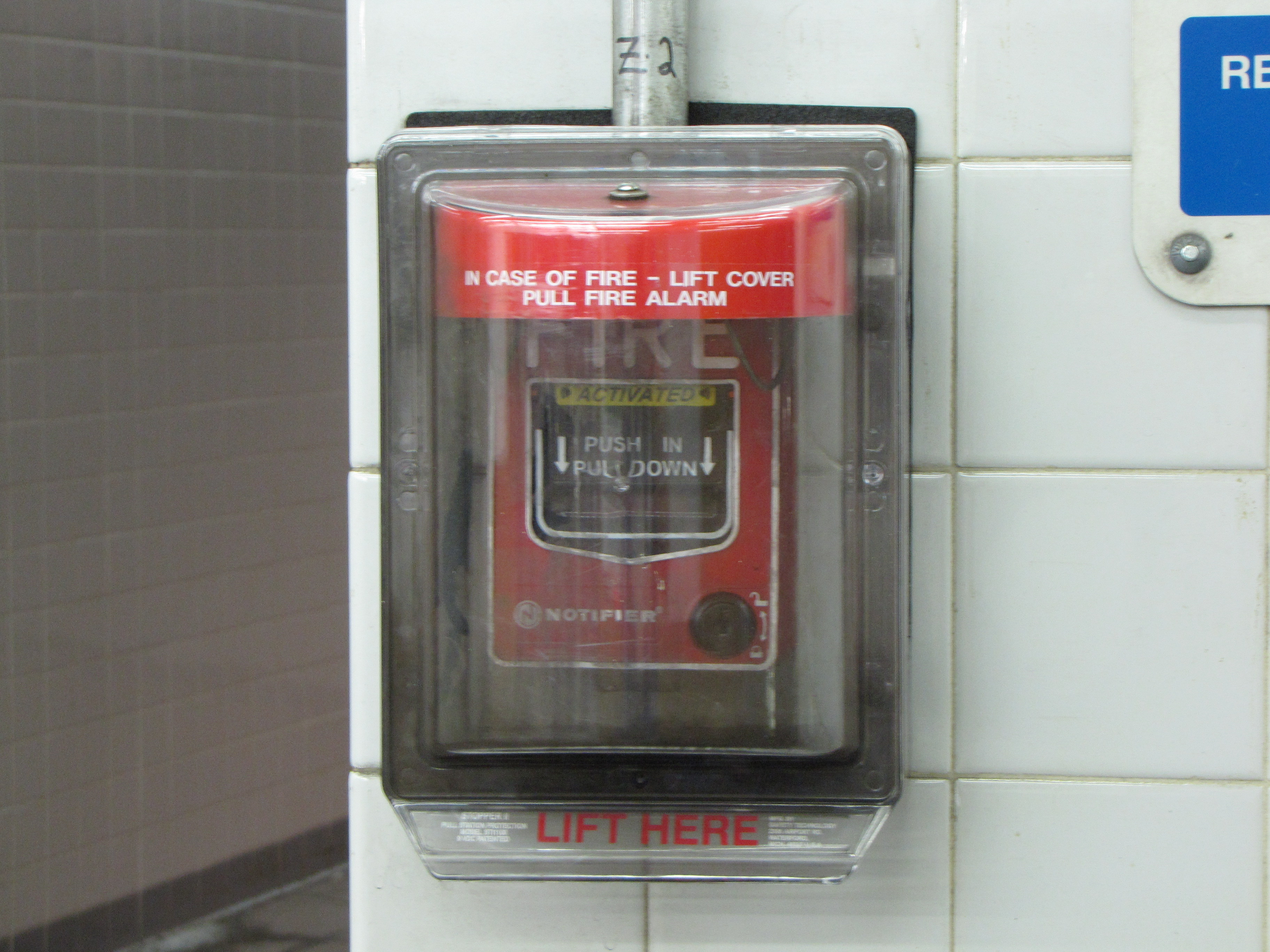 Activated Fire-Lite BG-12 pull station at MBTA Chinatown station, outbound side.